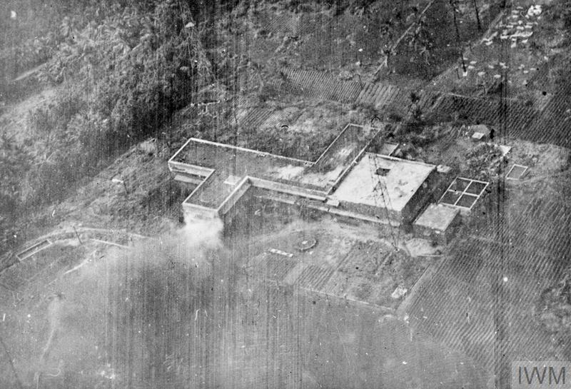 Rockets from British Pacific Fleet Firefly aircraft being fired at the radio station on Moen Island on Truk Atoll during Operation Inmate